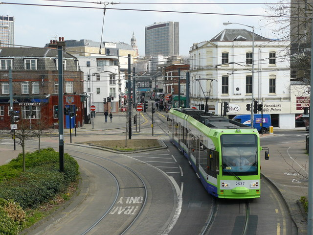 Tram at Reeves Corner, Croydon Tram passes Reeves Corner as it leaves Croydon for Wimbledon.